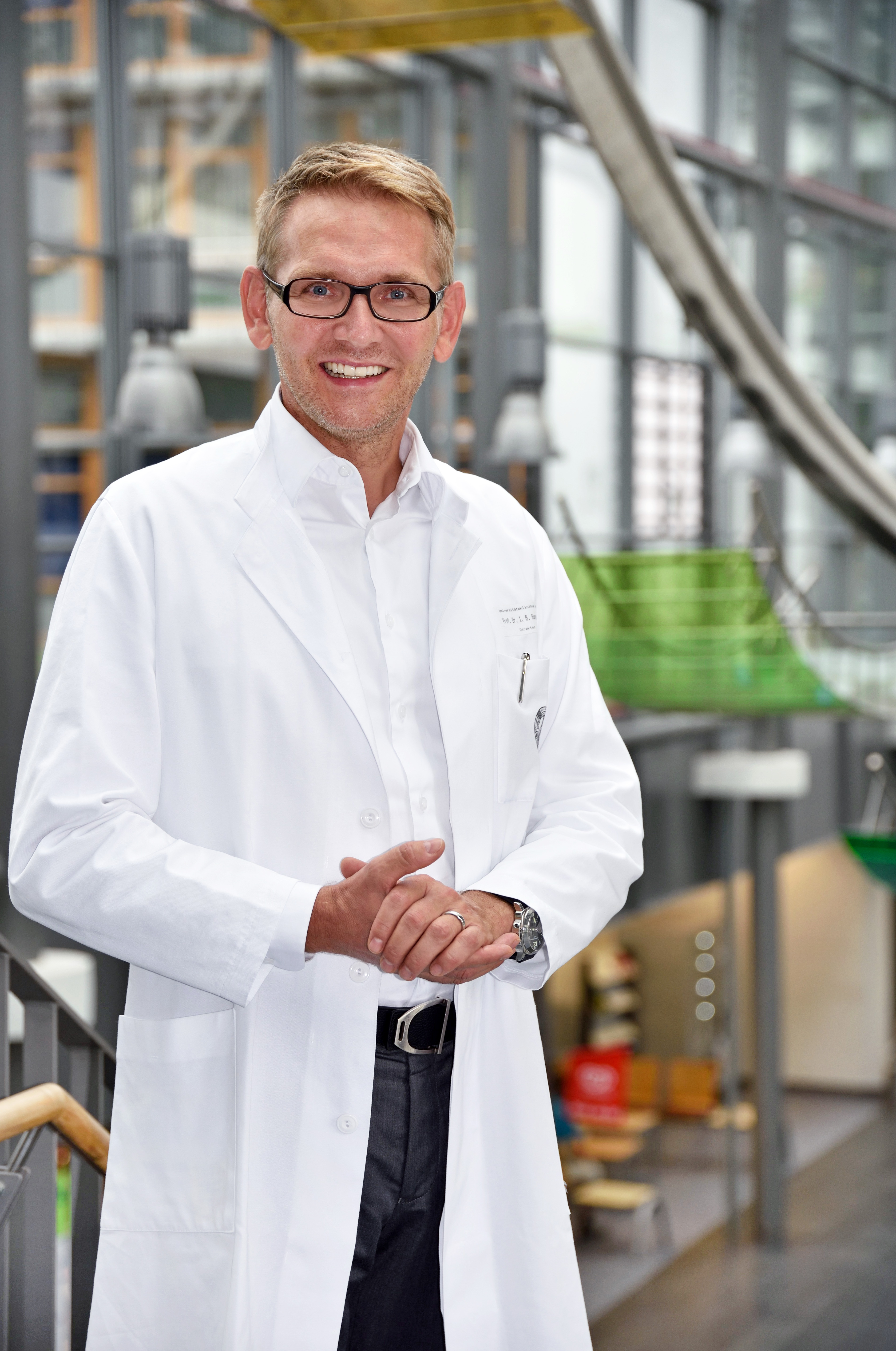 Ingo Runnebaum